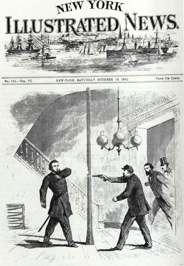 Gen. Jefferson C. Davis shooting gen. William "Bull" Nelson Original description: Depiction of shooting of William "Bull" Nelson by Jefferson C. Davis. This was published in 1862, and is thus public domain.